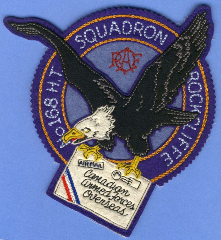 A scanned image of a WWII Military private-purchased crest suitable for Flight Jackets, #168 RCAF Squadron Crest manufactured by Crest Craft of Saskatoon, circa 1944. This squadron #168 RCAF was formed on 18 October 1943, flying Boeing B-17 Flying Fortress aircraft. Nicknamed "Flying Mail Trucks" the planes were modified to carry mail stuffed in every nook and cranny and deliver same to Canadian service personnel in Europe.